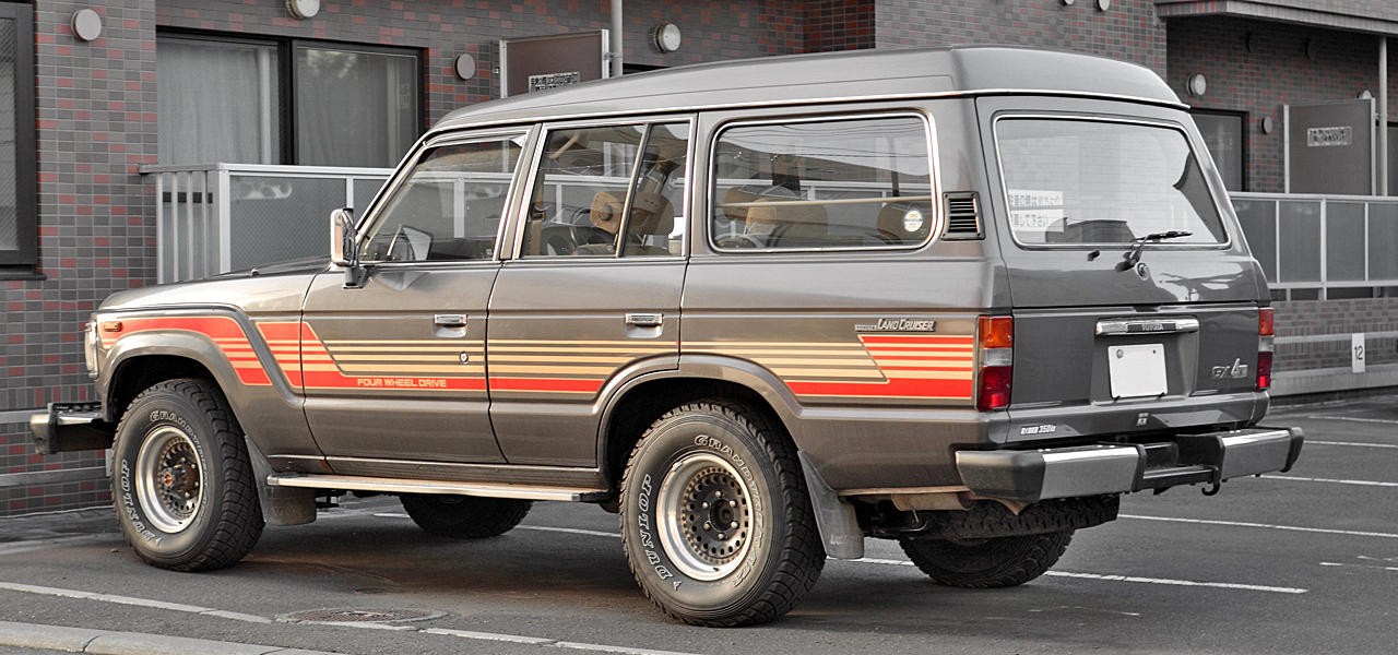 Toyota Land Cruiser 4.0 GX High-loof ( HJ60V )